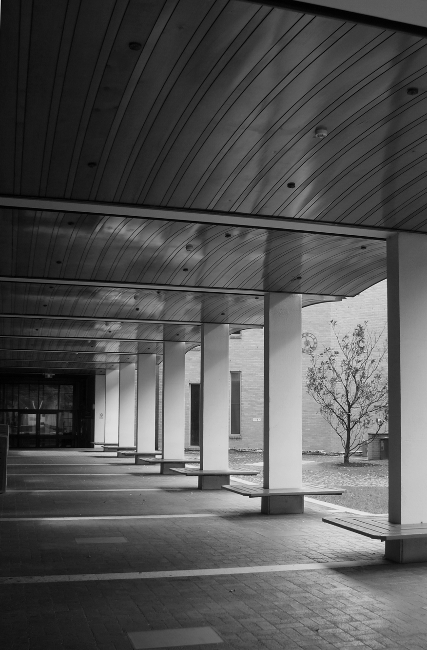 Rae Featherstone designed North Building in association with Eggleston MacDonald & Secomb between 1959-61